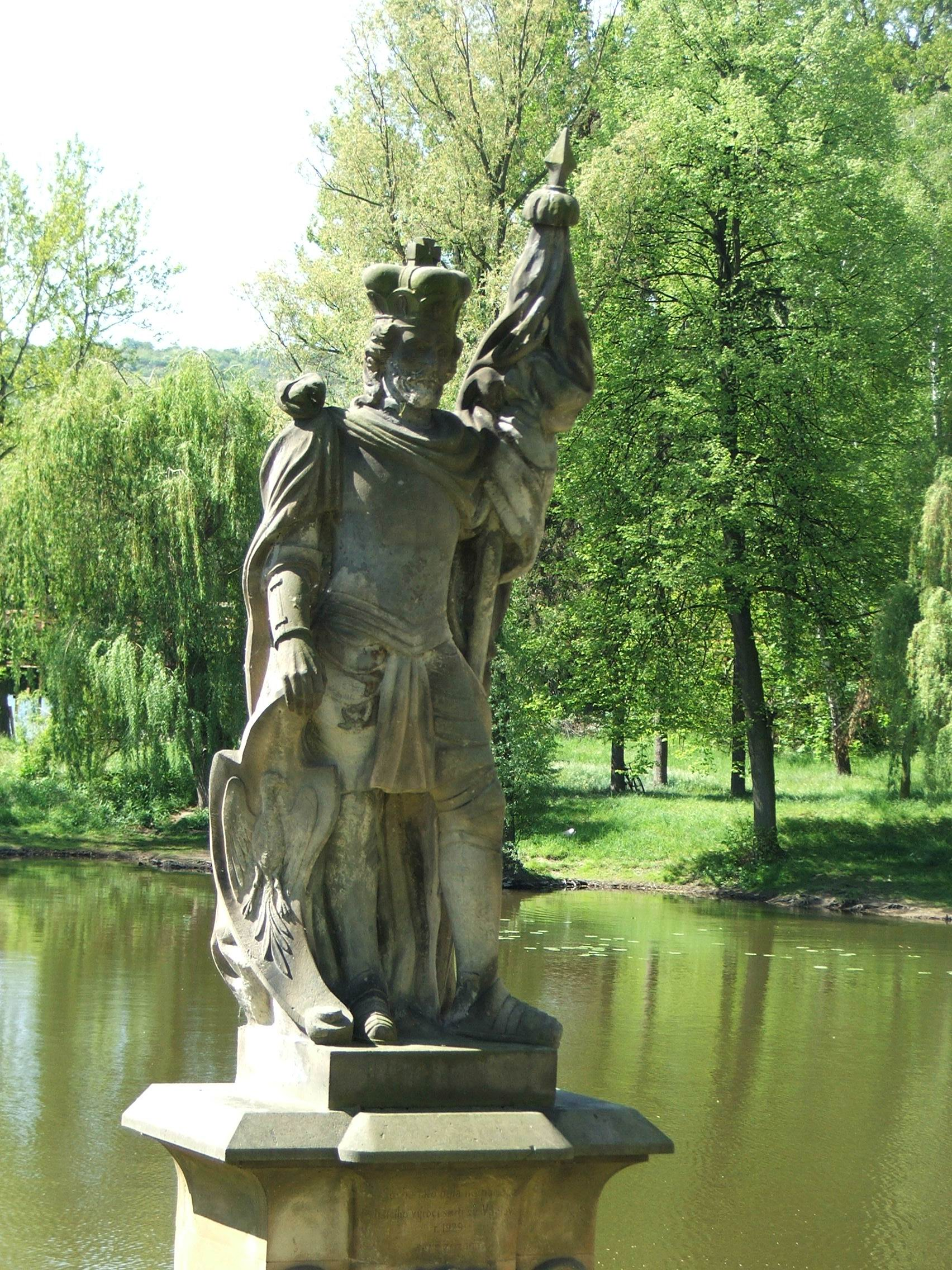 Sculpture of St. Wenceslaus in Libochovice, North Bohemia, Czechia